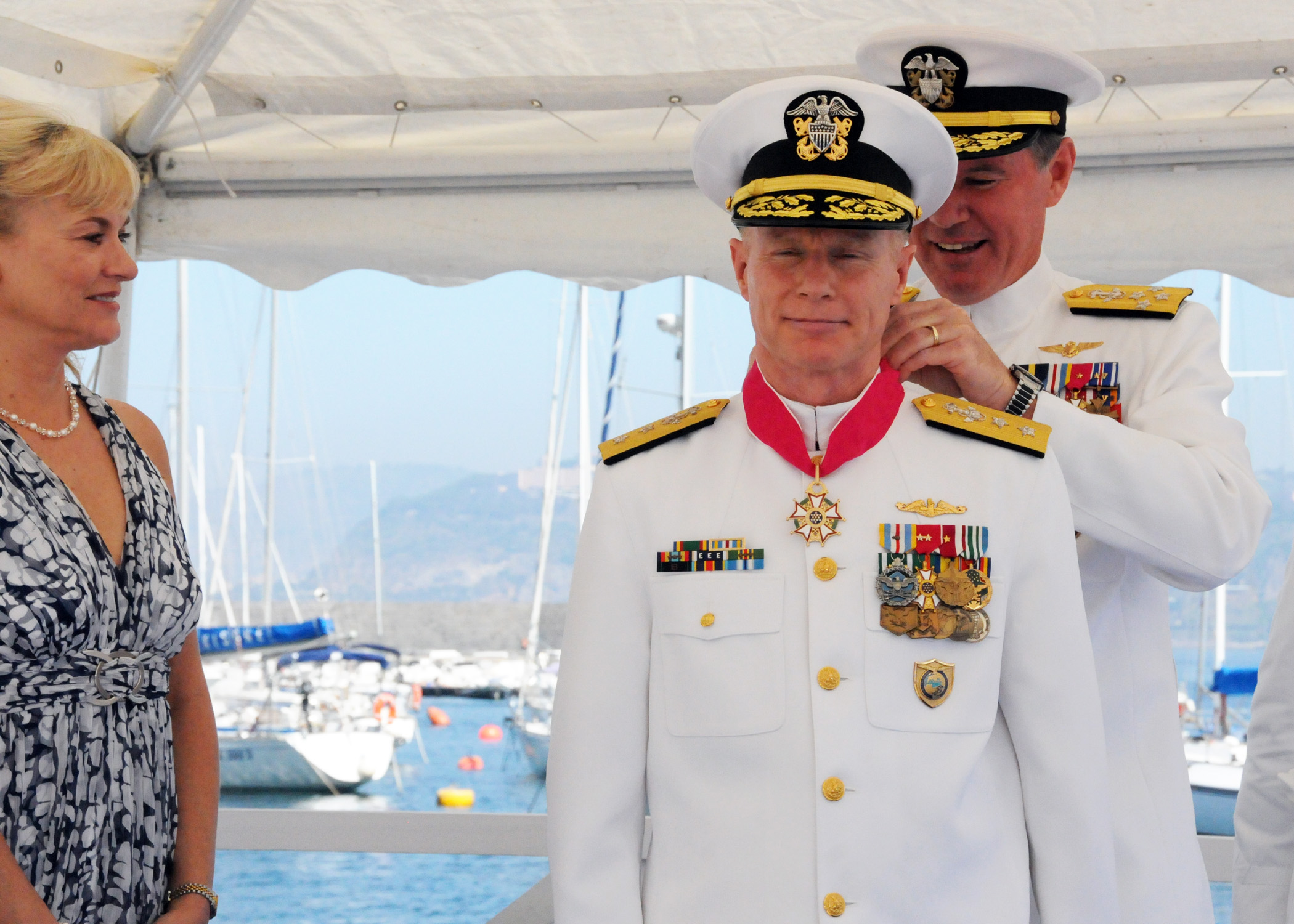 090722-N-6138K-087: NISIDA, Italy (22 July 2009) Adm. Mark Fitzgerald, commander, U.S. Naval Forces Europe-Commander, U.S. Naval Forces Africa, presents the Legion of Merit to Rear Adm. Charles J. "Joe" Leidig during a change of command ceremony. Leidig turned over command to Rear Adm. John M. Richardson. Richardson assumes duties as Director, U.S. Naval Forces Europe-U.S. Naval Forces Africa/U.S. 6th Fleet Operations and Intelligence; Deputy Commander, U.S. 6th Fleet; Commander, Submarines, Allied Naval Forces South; and Commander, Submarine Group 8. (U.S. Navy photo by Mass Communication Specialist First Class Gary Keen/Released)